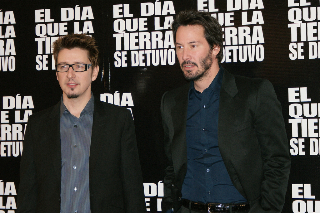 Director Scott Derrickson and actor Keanu Reeves in Mexico